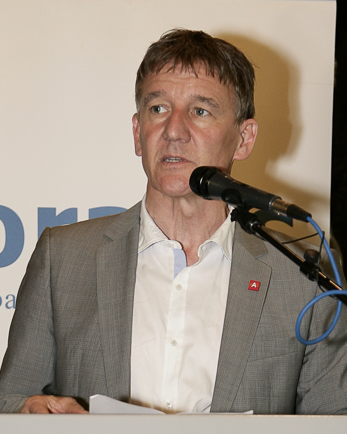 Patrick Janssens, Mayor of Antwerp, welcoming participants at the Horasis Global India Business Meeting, Antwerp, 24-25 June